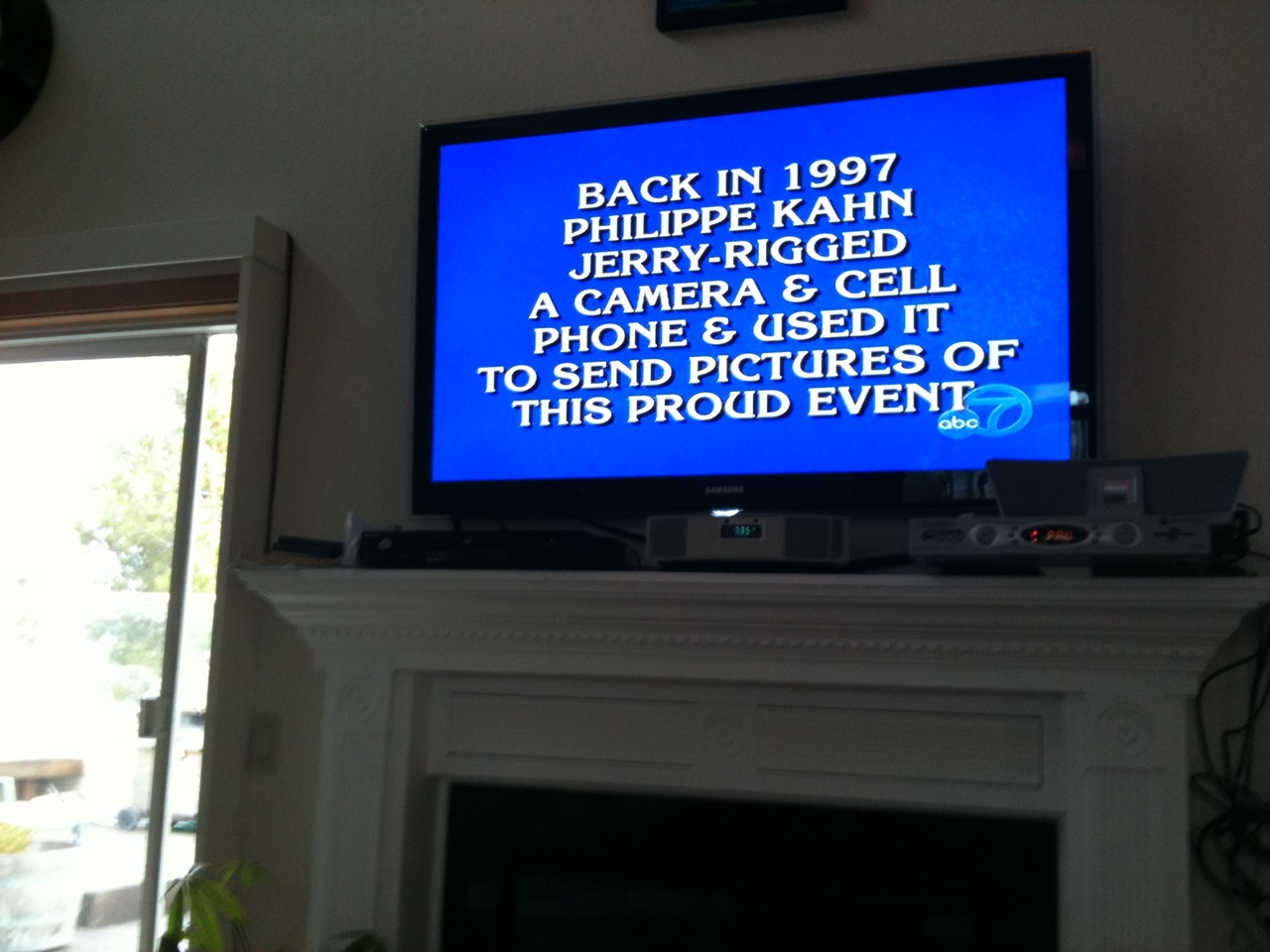 Philippe Kahn creating camera-phone Jeopardy Question